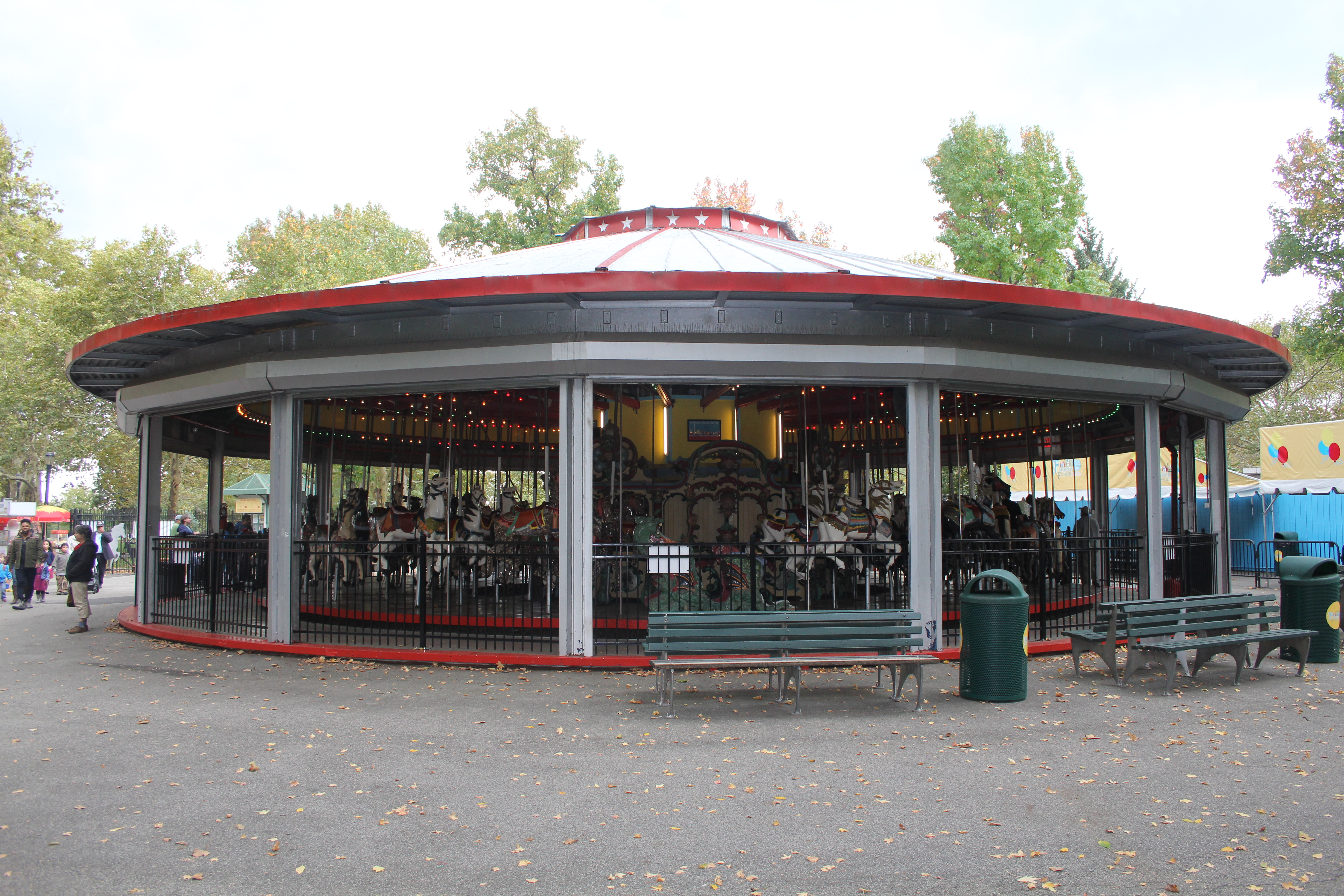 The Flushing Meadows Carousel figures were carved by Marcus Illions in Coney Island for two separate carousels, completed in 1903 and 1908, that were later combined to create the present carousel for the 1964 World's Fair. The carousel is now located in a small amusements area near the zoo in Flushing Meadows-Corona Park.